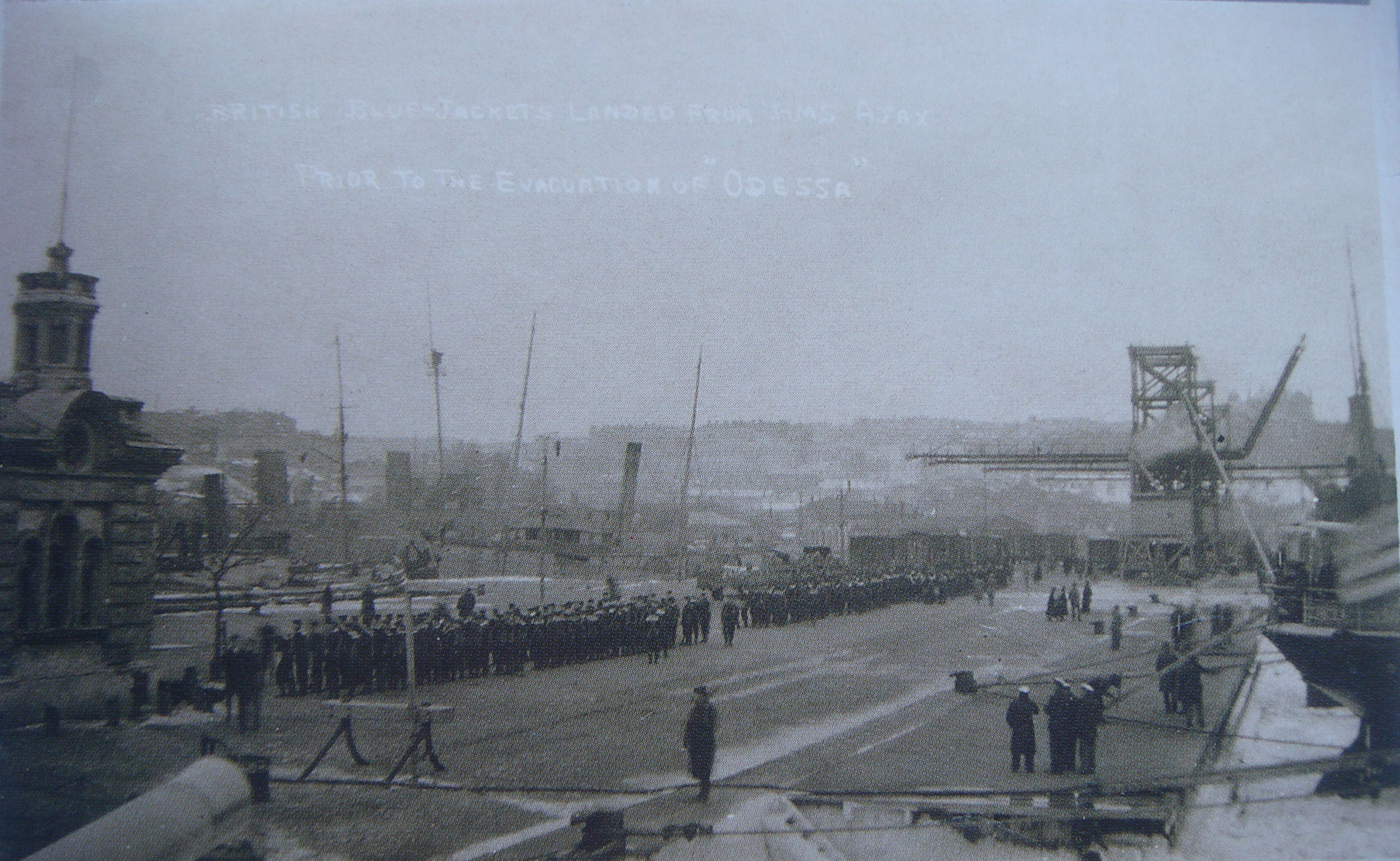 British blue-jackets landed from HMS Ajax in Odessa port. Evacuation of Odessa. February 1920